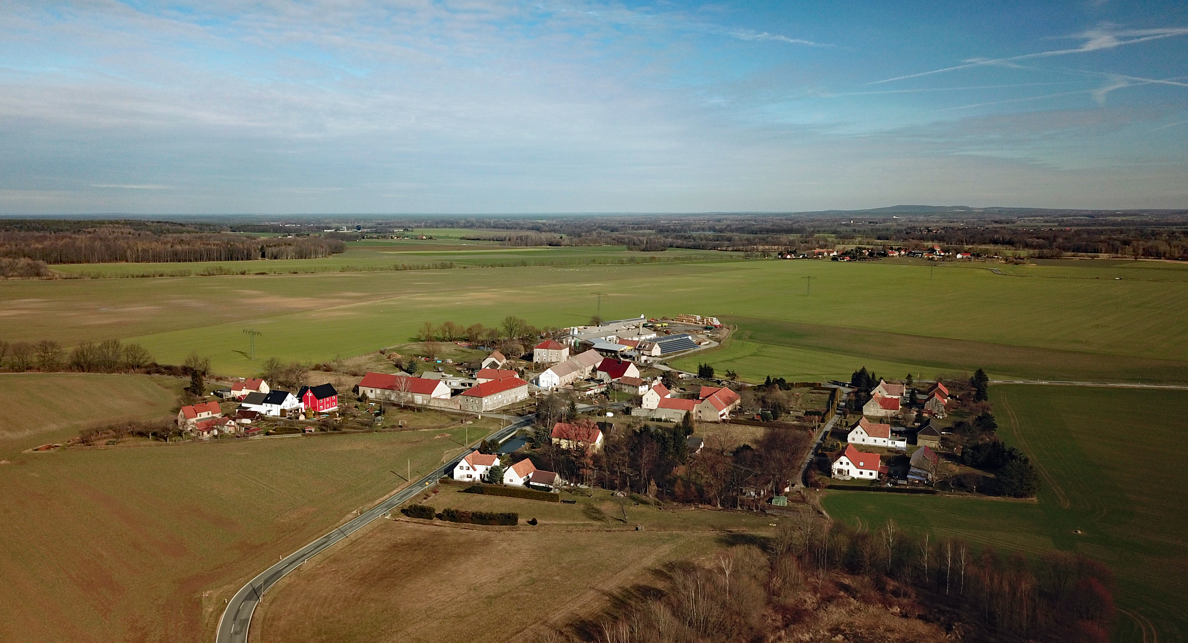 Jeschütz, Großdubrau, Saxony, Germany Hornjoserbsce: Powětrowy wobraz Ješic